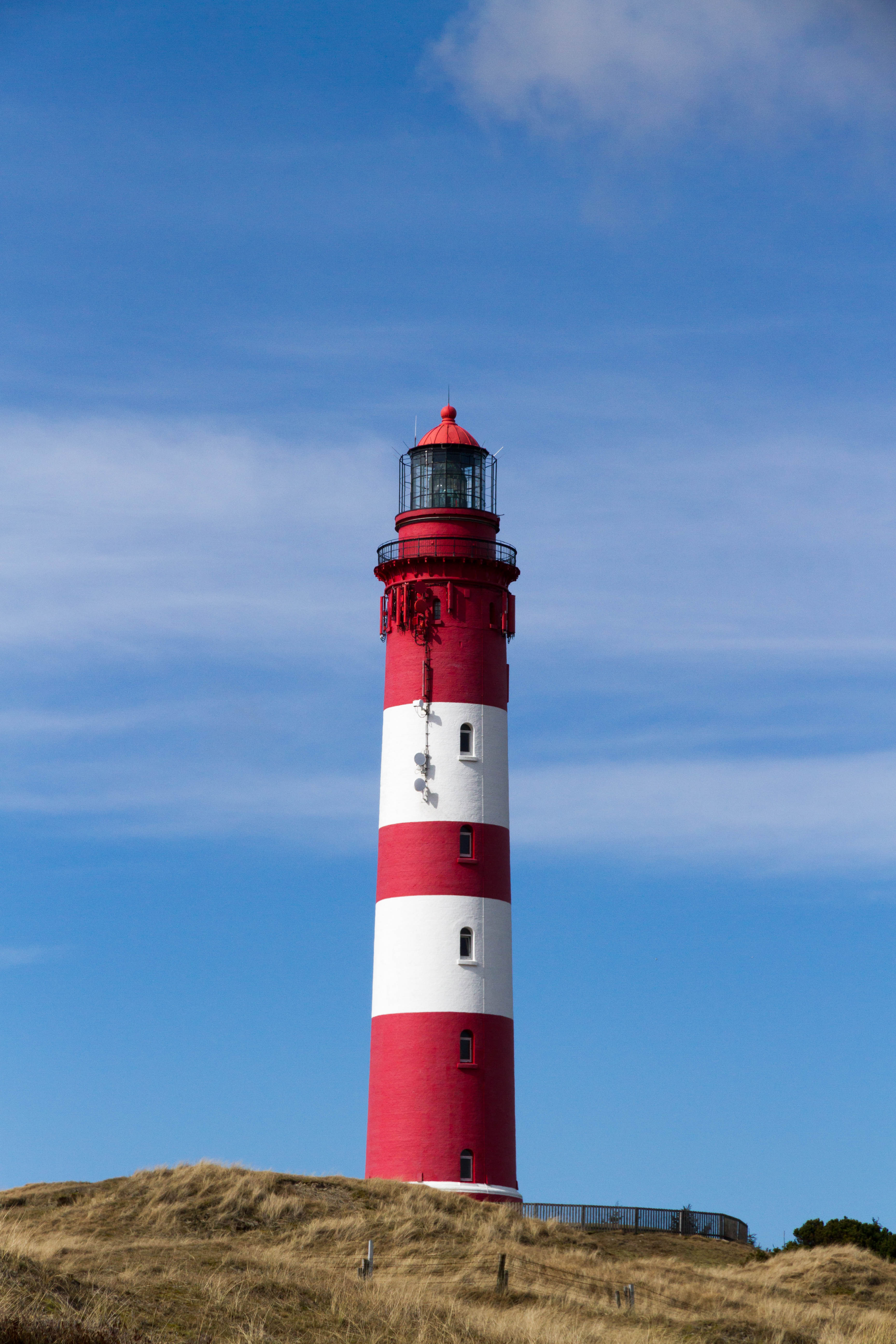 The making of this document was supported by the Community-Budget of Wikimedia Germany. Lighthouse Amrum